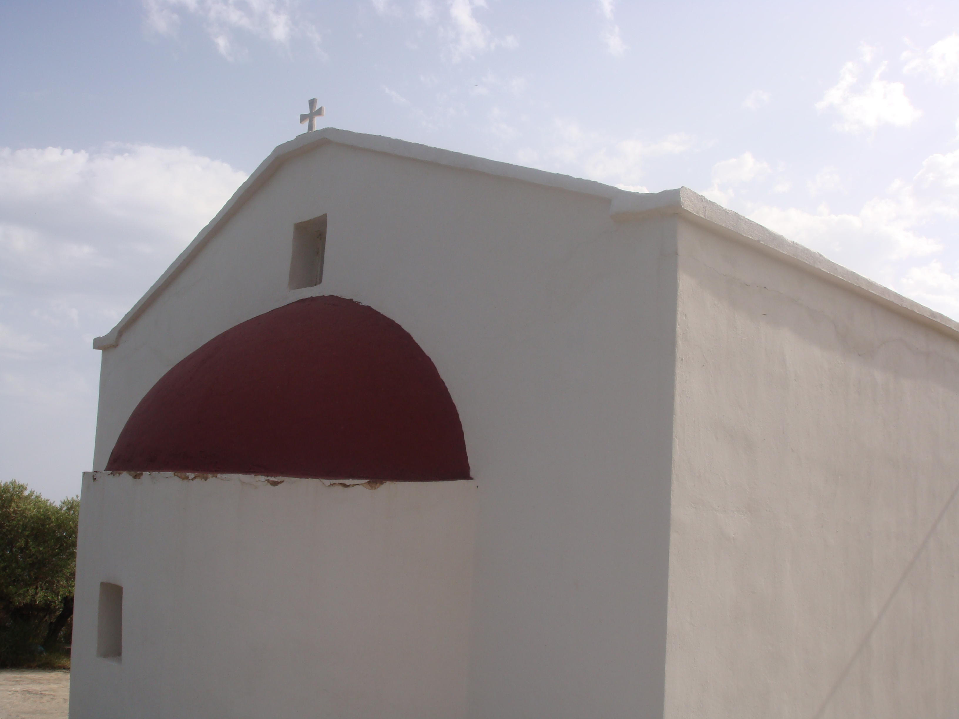 Church of Ayia Marina, at Kefalovrissi, in Herakleion Prefecture.